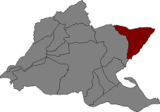 Location of l'Ametlla de Mar in Baix Ebre